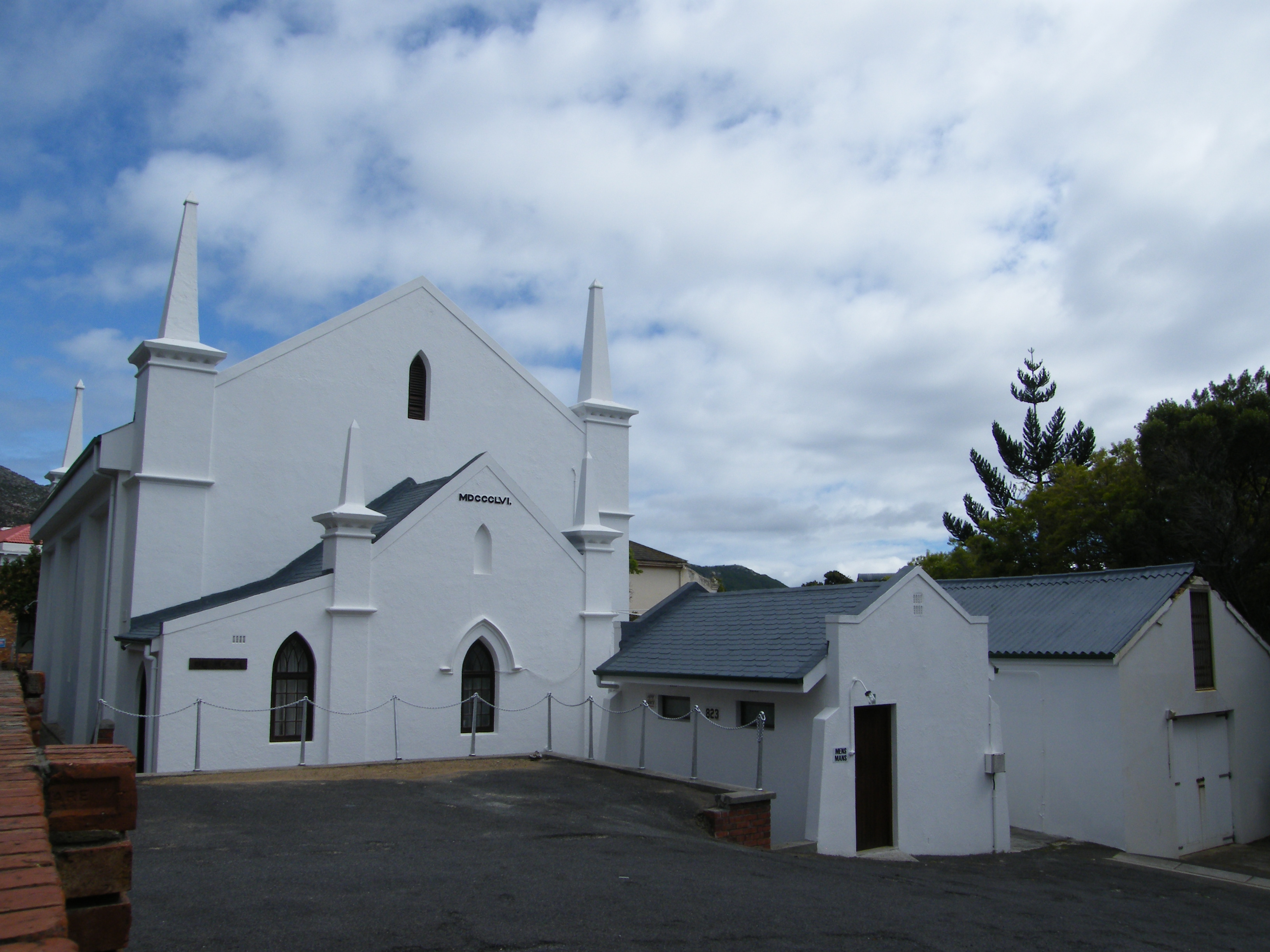 This media shows a South African Protected Site with SAHRA file reference 9/2/081/0056.